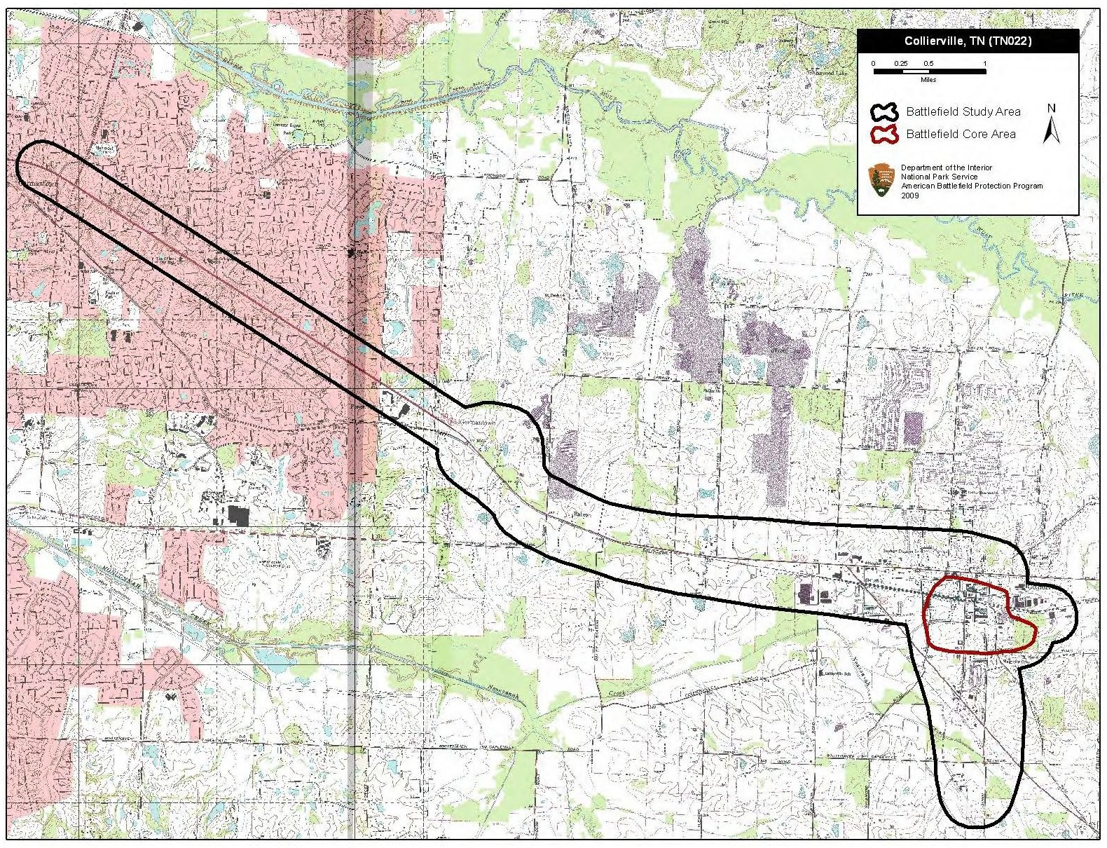 Map of battlefield core and study areas.